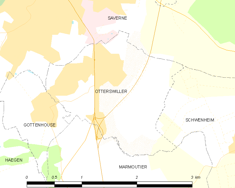 Map of French municipality